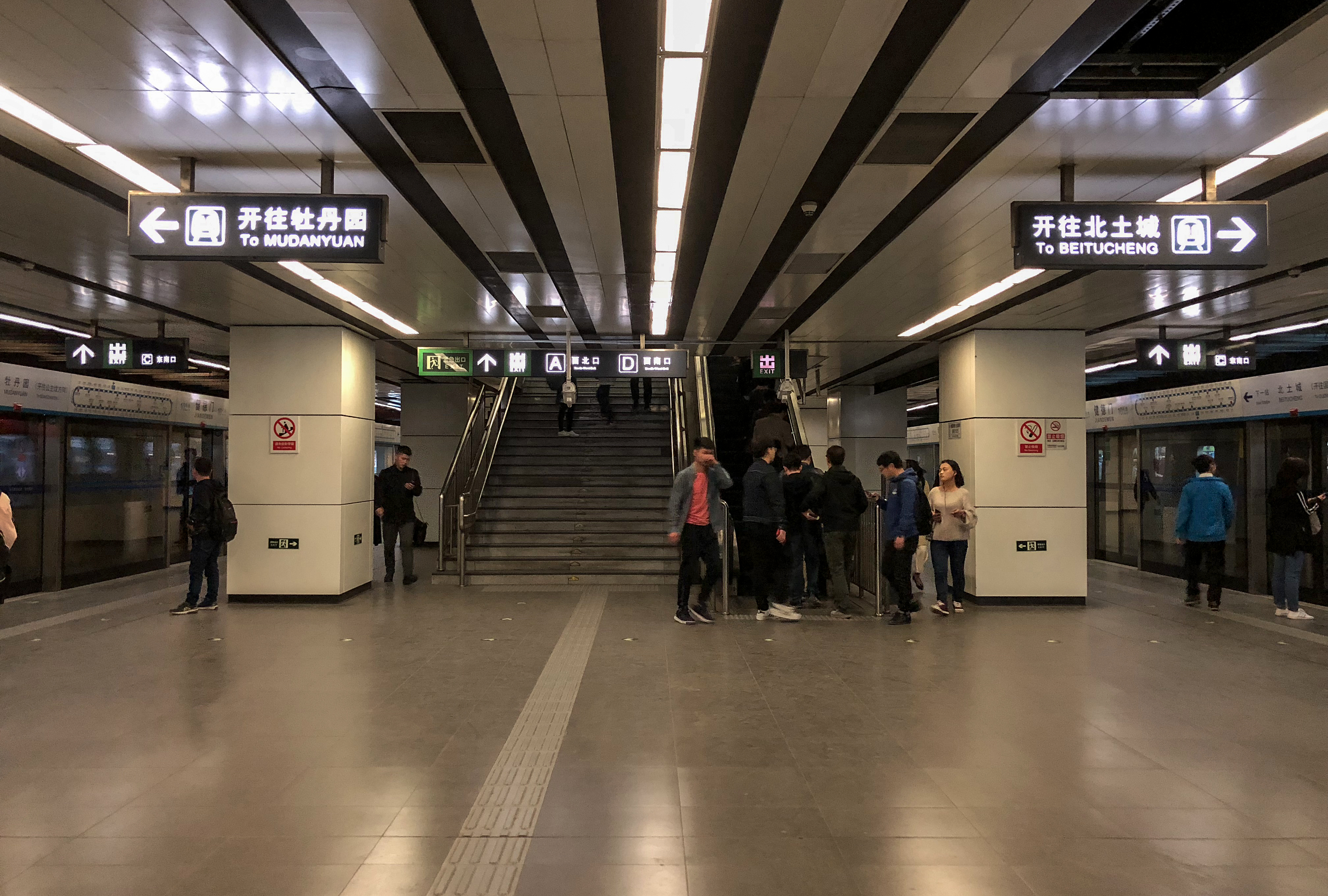 Or we can also call it "Qijiahuozi" (祁家豁子)?